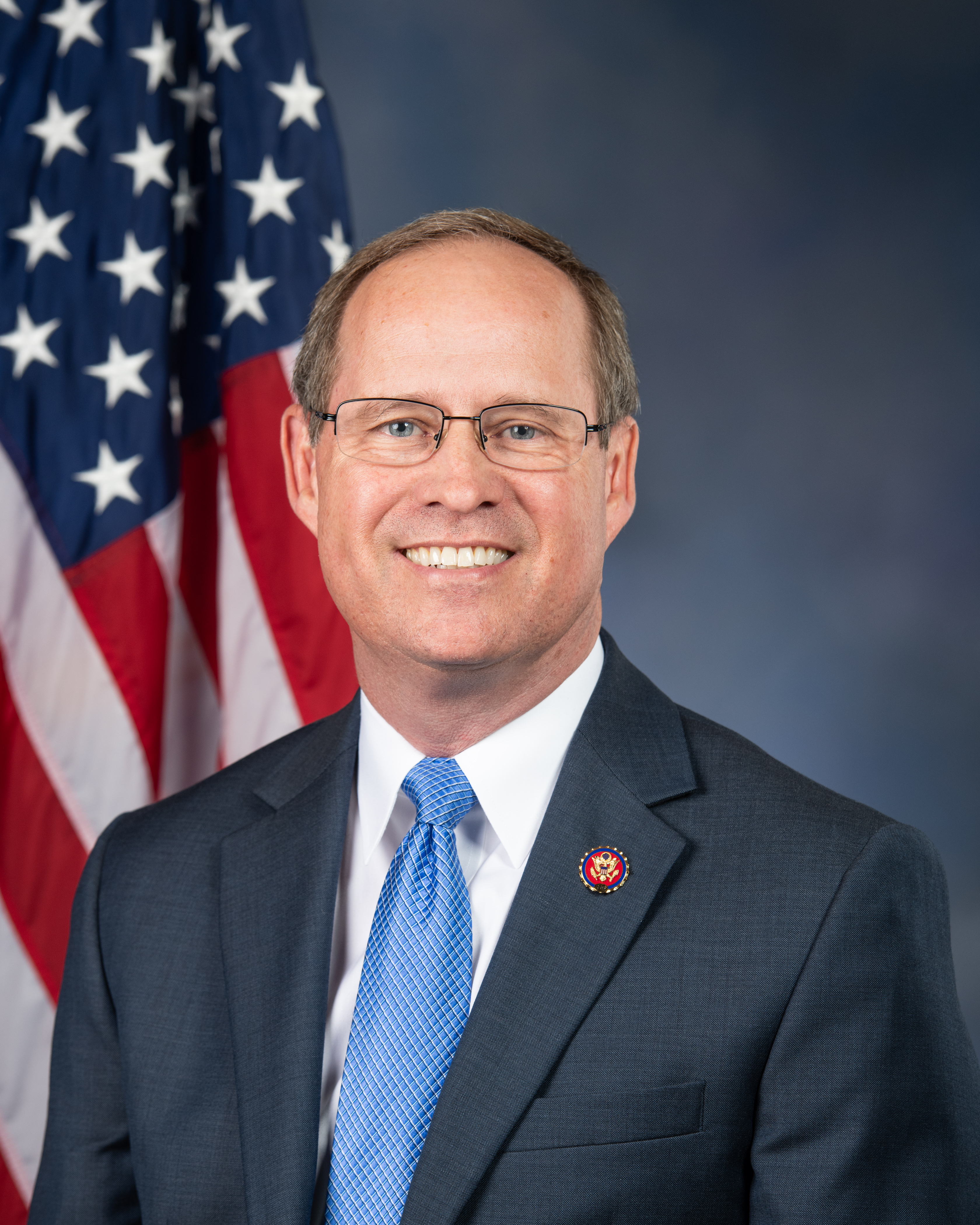 Rep. Greg Murphy's 1st official portrait.